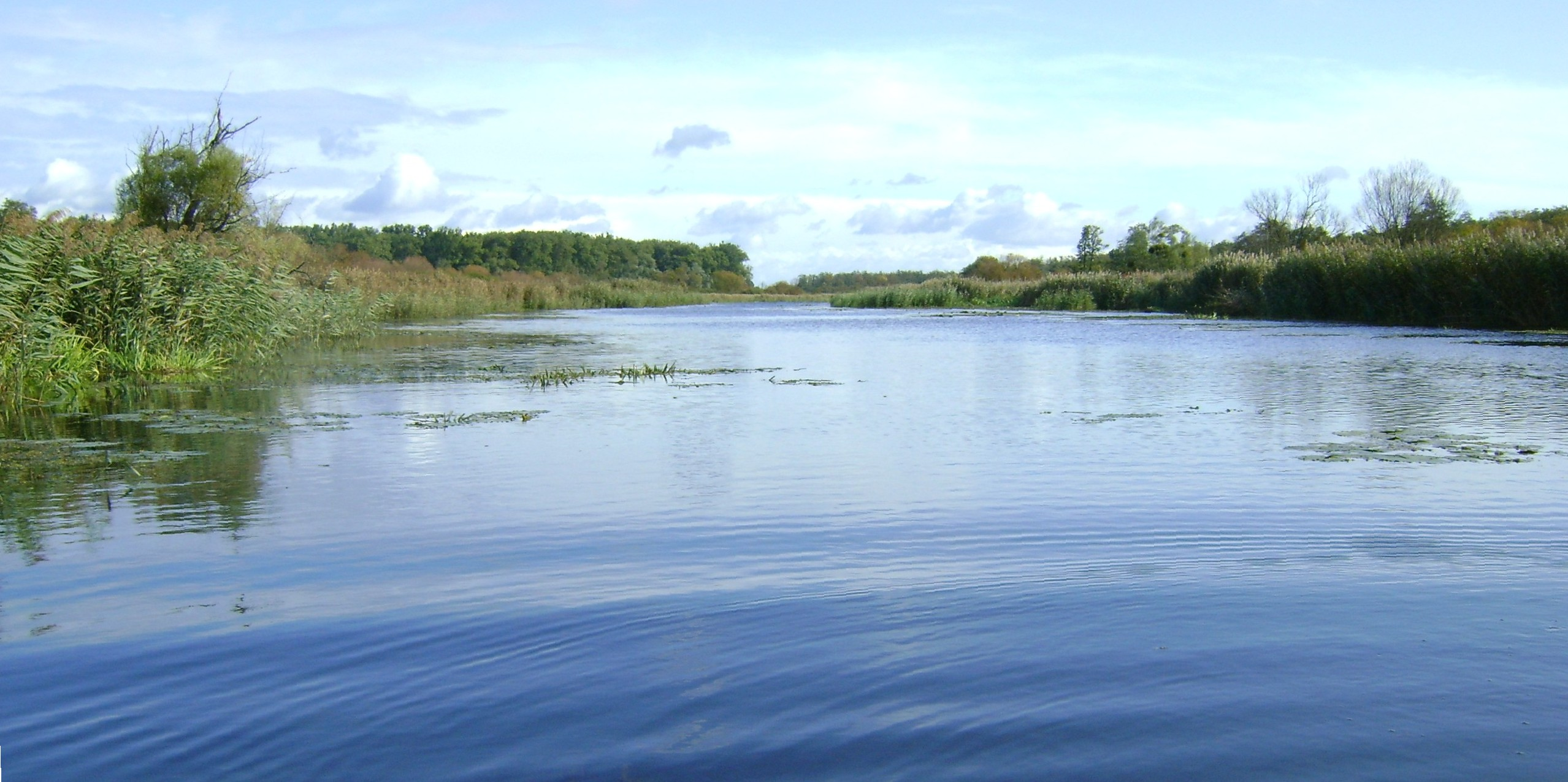 Wydrnik - arm of Odra river in Szczecin between Czarnołęka (left) and Radolin (right) islands